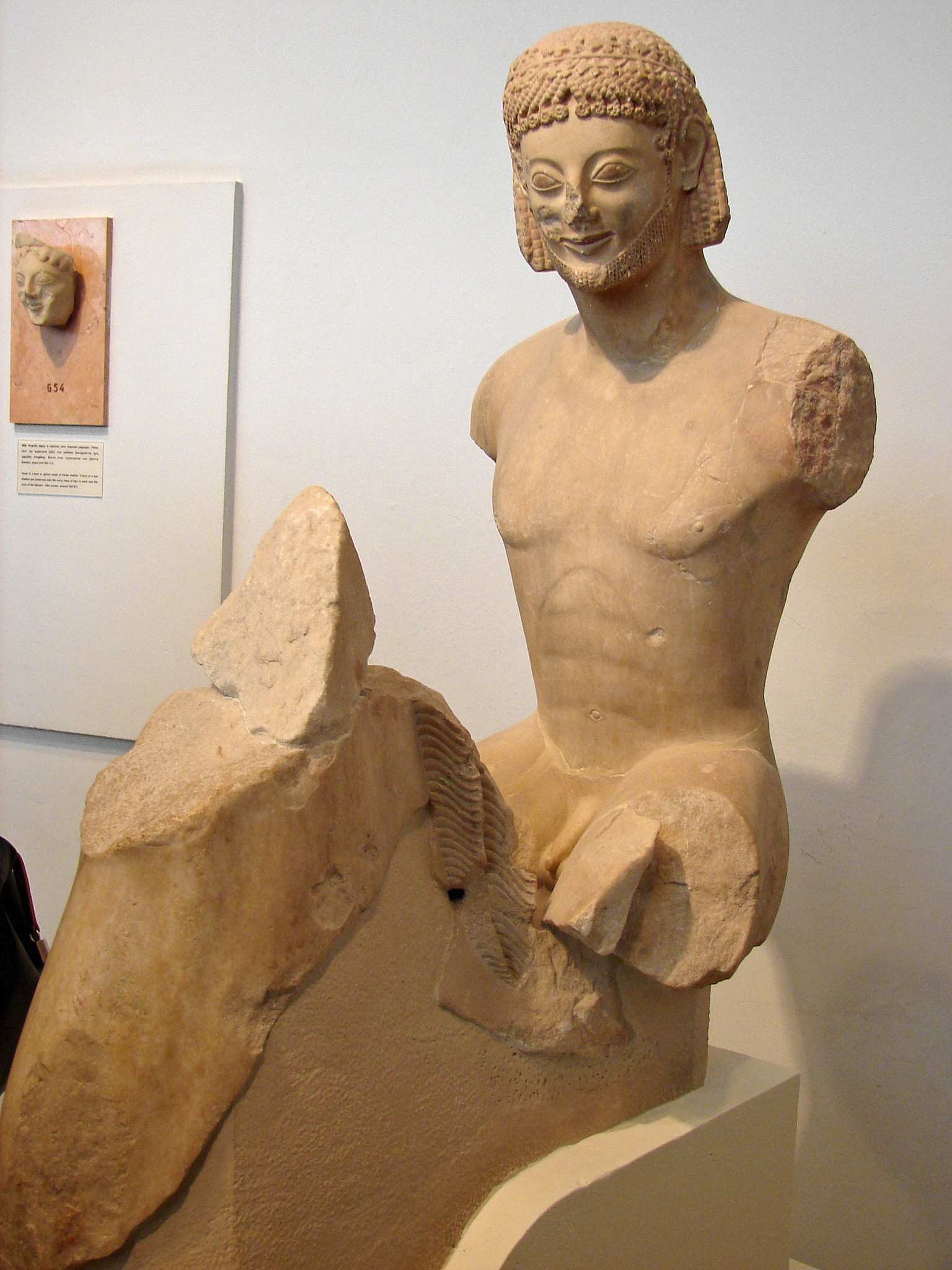 Kouros' Head to horse, Acropolis' museum, Athens